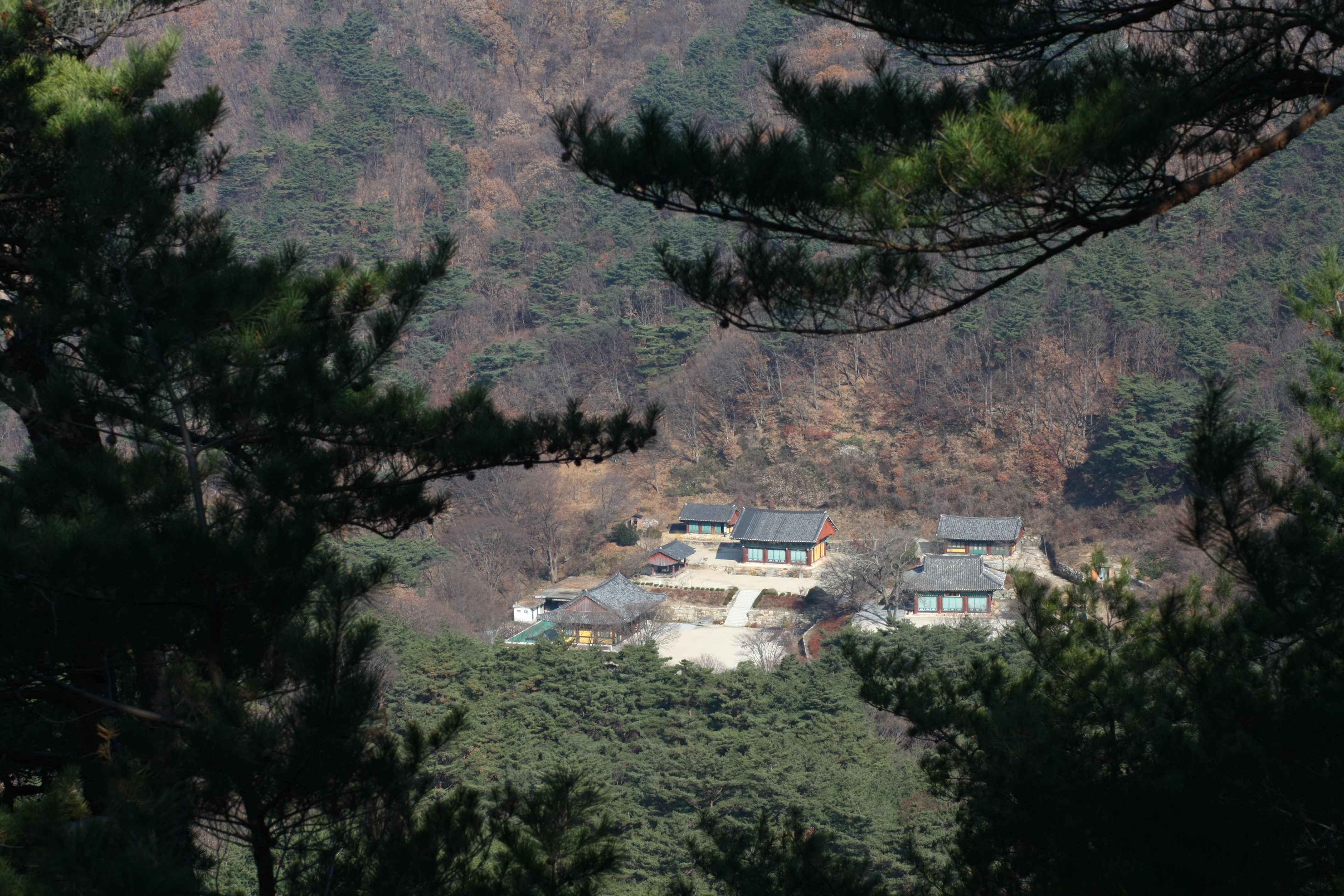 Gakyeonsa temple(Buddhist temple in Chungcheongbuk-do, South Korea)